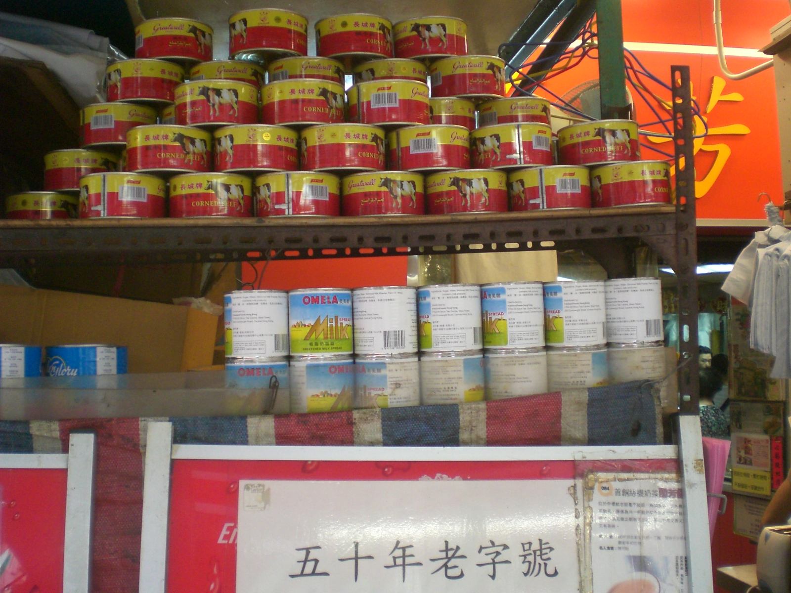 中環蘭芳園食品